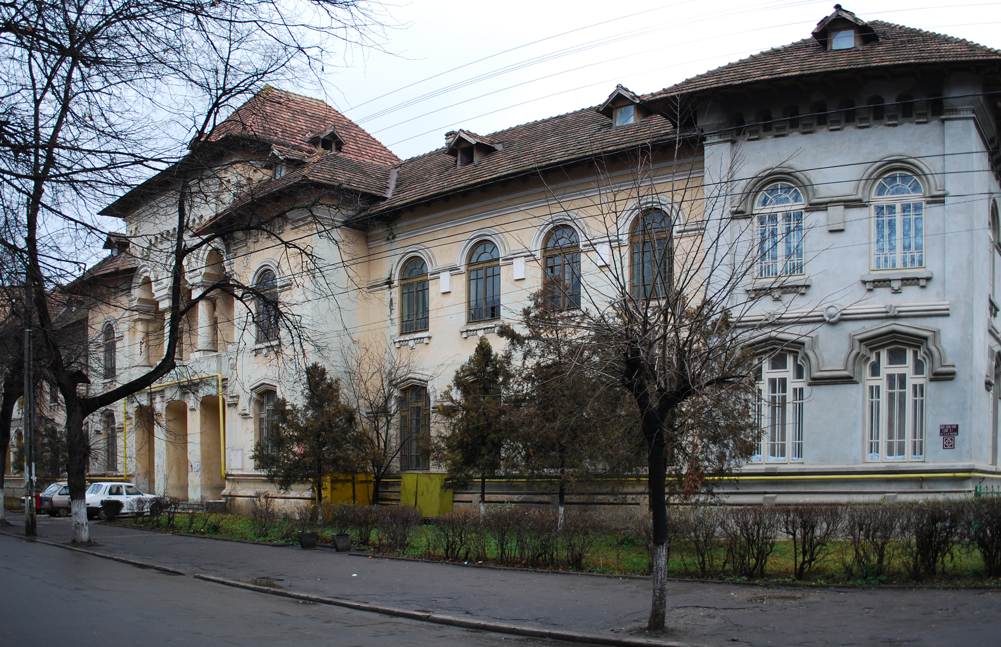 Building "B" of the Roman Vodă high school in Roman, Neamţ County, RomaniaRomână: Clăđirea „B” a liceului Roman Vodă din Roman, judeţul Neamţ, România